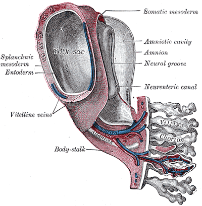 Model of human embryo 1.3 mm. long. (After Eternod.)